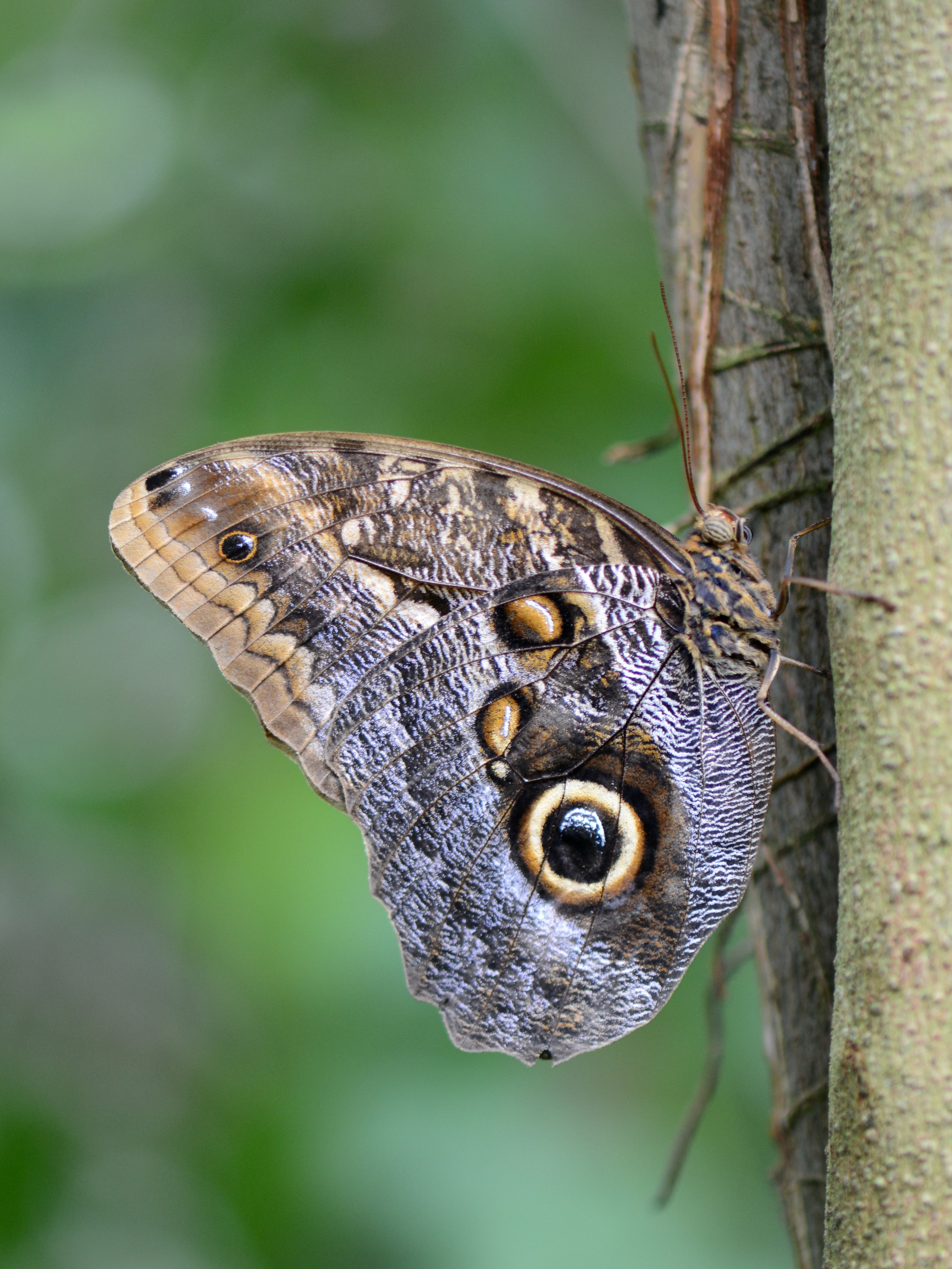 Owl butterflies, of which there are around 20 different species, are members of the genus Caligo, in the brush-footed butterfly family Nymphalidae.